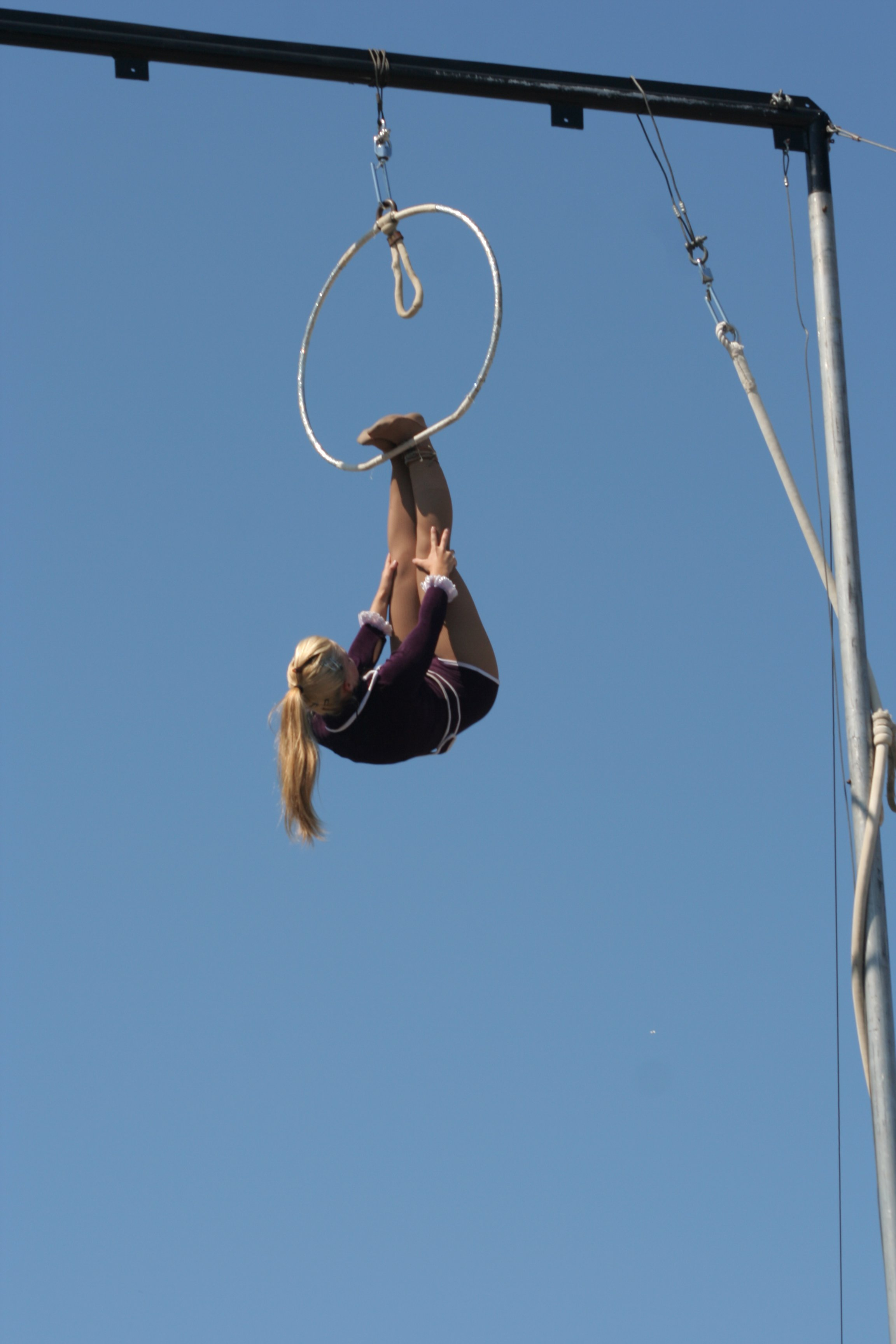 "Pirates of the Sky" aerialists act, performing at the 2008 New York State Fair.